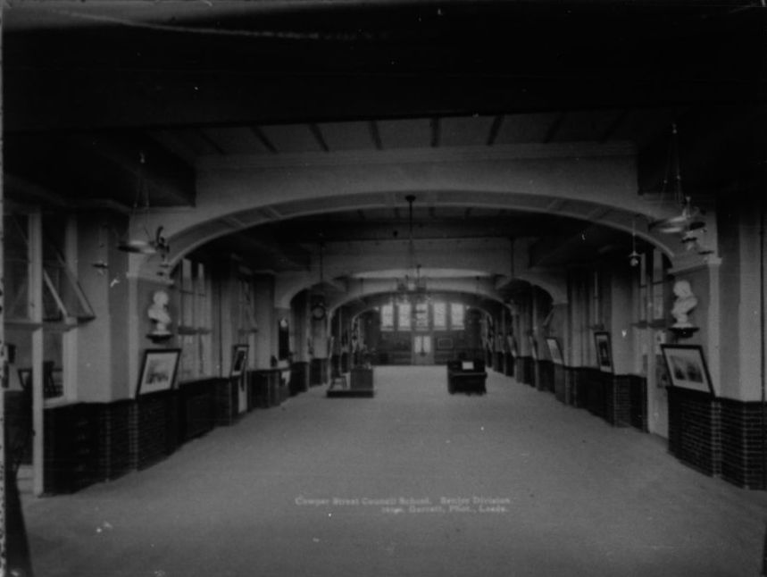 Six photos on one neg - Cowper Street, London, not Currie Street, Adelaide, See also GN05066-67. (G Brooks) - Microfiche incorrectly titled "Currie Street Council School Interiors". Re-titled to reflect G Brooks' notes.